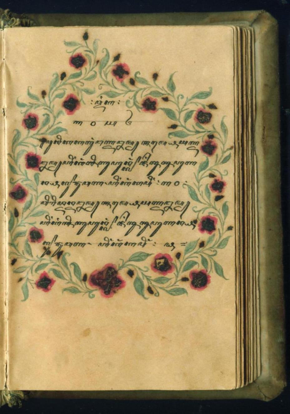 Wadana or carpet page of a notebook from Keraton Solo with emblem of Pakubuwono X. Binded by hard cover, and handwritten with Javanese language and script.